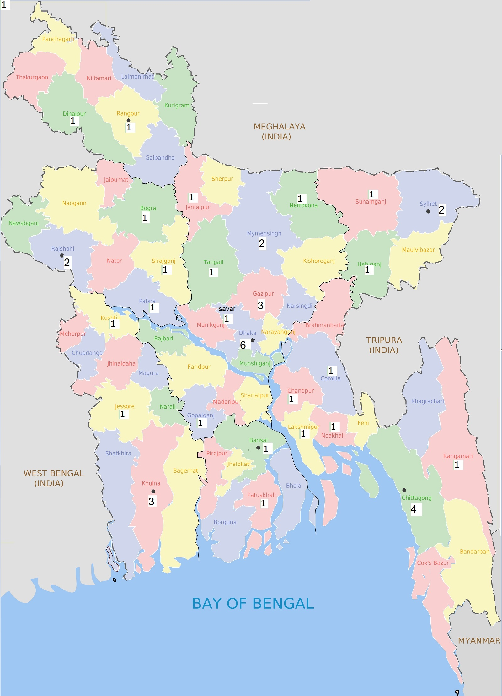 Location of public universities of Bangladesh